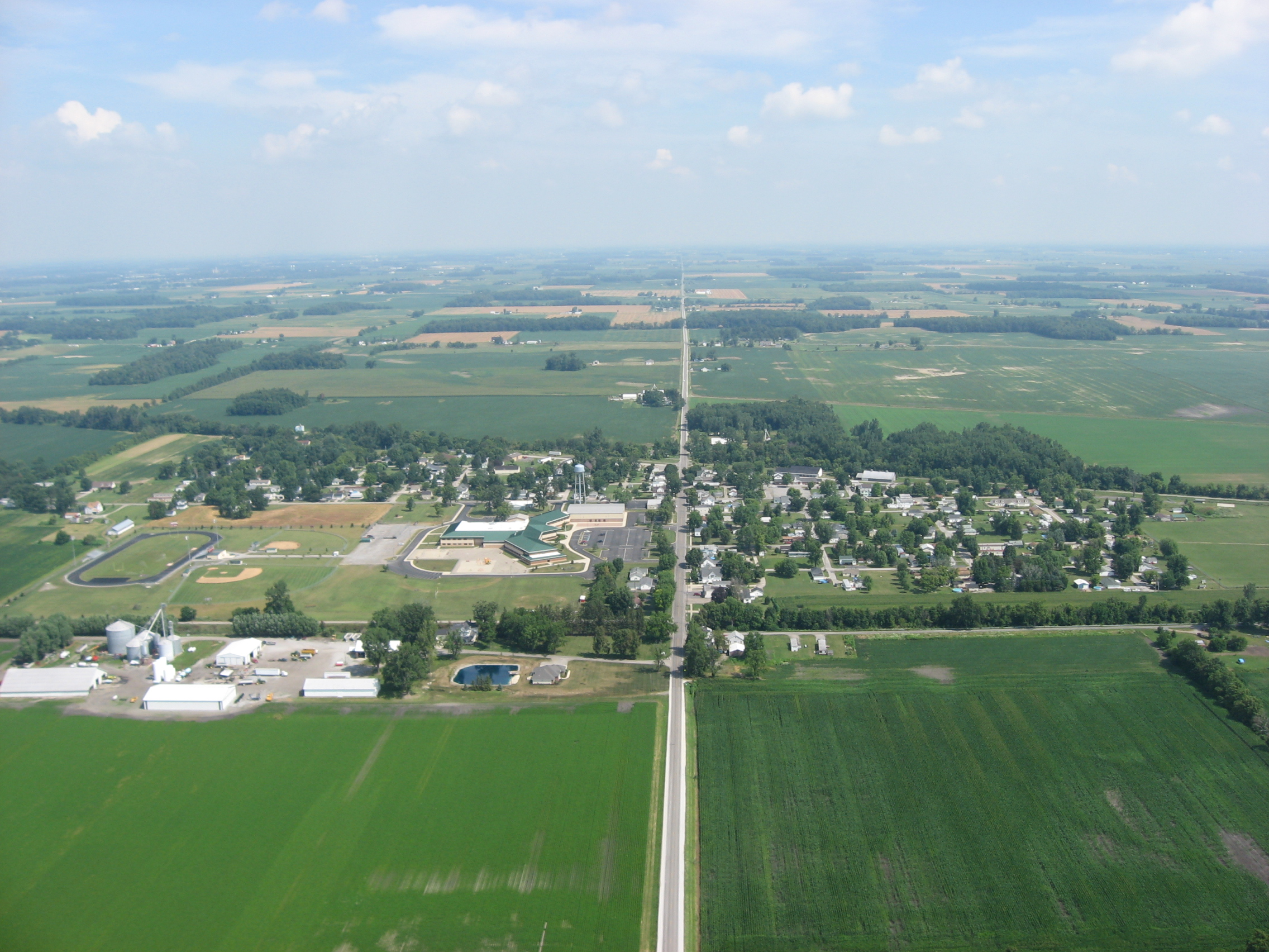 View of the Upper Scioto Valley High School in the village of McGuffey in western Hardin County, Ohio, United States. The vertical line is State Route 195. Picture taken from a Diamond Eclipse light airplane at an altitude of 1,800 feet MSL and a bearing of approximately 0º.